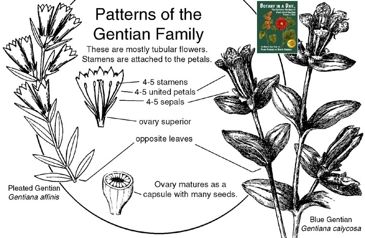 Gentians have distinctive, bell-shaped blossoms. They are usually bisexual and regular with 4 or 5 separate sepals, 4 or 5 united petals and 4 or 5 stamens. The stamens are inserted on the corolla tube and alternate with the lobes. The ovary is positioned superior. It consists of 2 united carpels (bicarpellate), forming a single chamber. It matures as a capsule with many seeds. The leaves are mostly opposite, but some species of Frasera have leaves in whorls of three or four